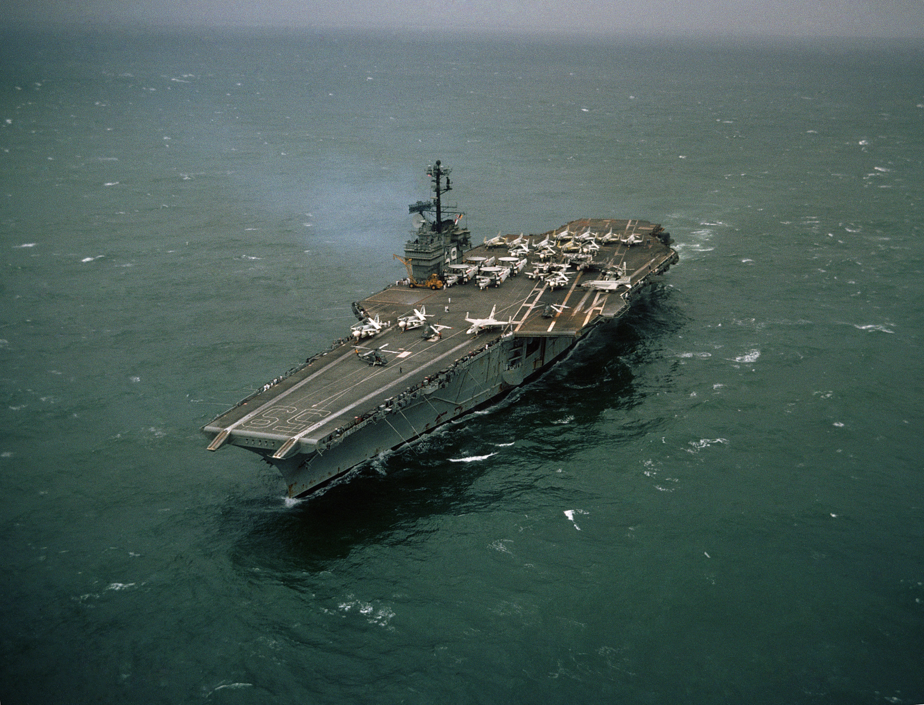 The U.S. Navy aircraft carrier USS Forrestal (CVA-59) underway off the Philippines on 12 August 1967. This photo was taken approximately three weeks after fires and explosions damaged the ship off Vietnam on 29 July 1967, leaving 134 crewmen dead, 161 injured, and two missing and presumed. On 31 July, Forrestal arrived at Naval Air Station Cubi Point, Philippines, to undertake repairs sufficient to allow the ship to return to the United States. With repairs completed, she departed on 11 August, arriving at Naval Station Mayport, Florida (USA), on 12 September 1967. From 19 September 1967 to 8 April 1968, Forrestal was then repaired at the Norfolk Naval Shipyard, Virginia (USA).